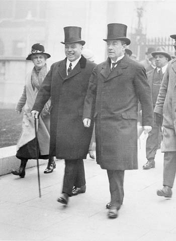 Rt. Hons. W.L. Mackenzie King and Stanley Baldwin leaving a Memorial Service at Westminster Abbey during the Imperial Conference